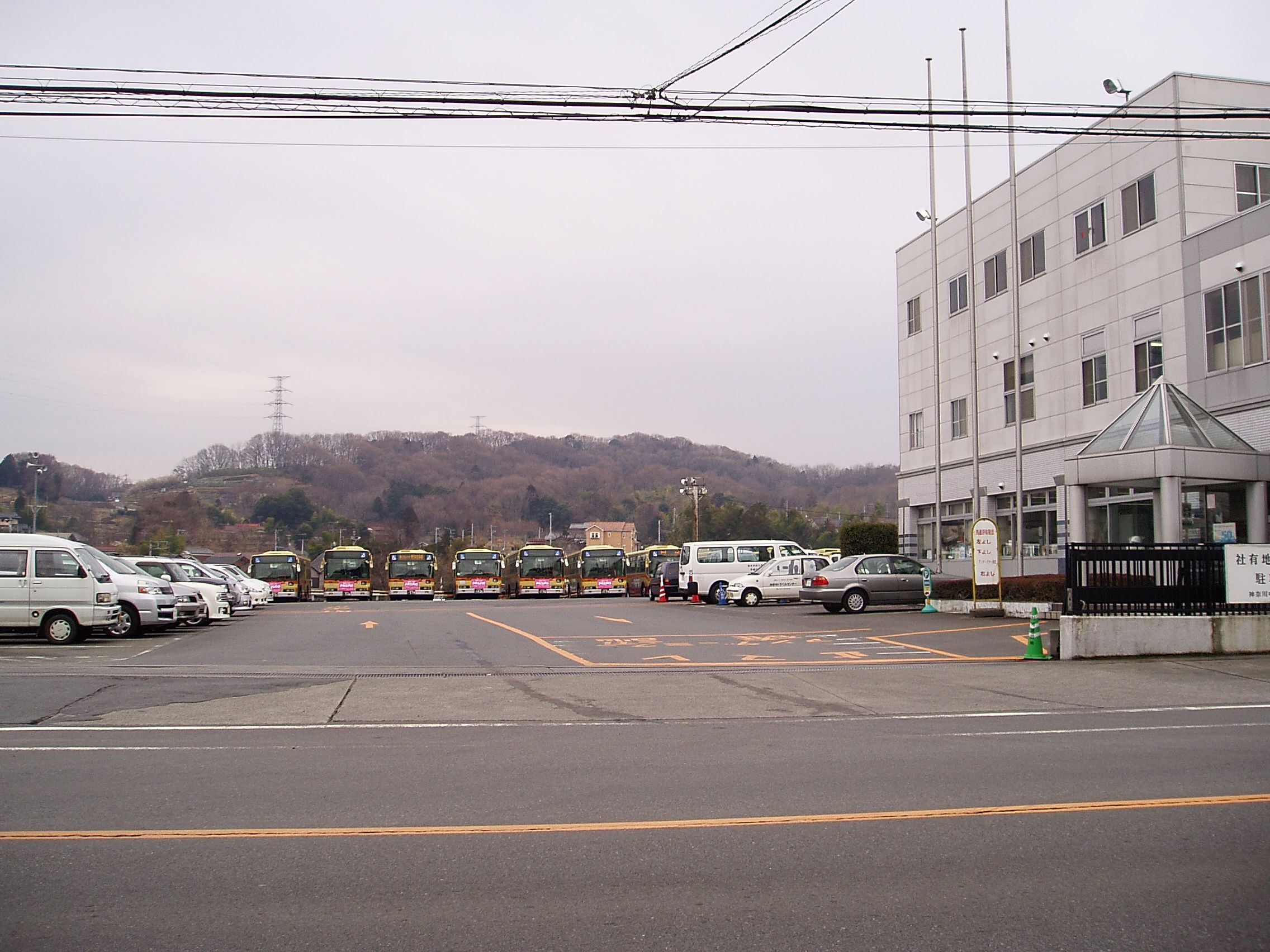 Kanachu Machida Branch